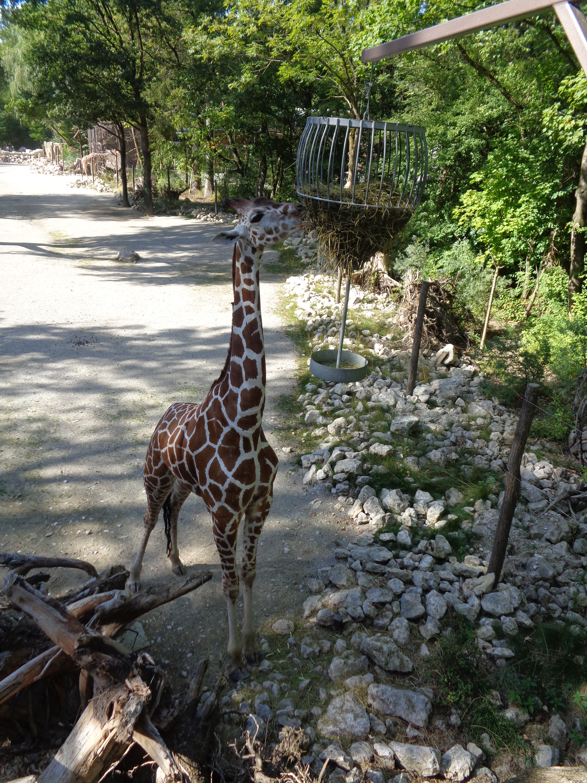 Giraffe in the Hellabrunn Zoo, Munich, Germany